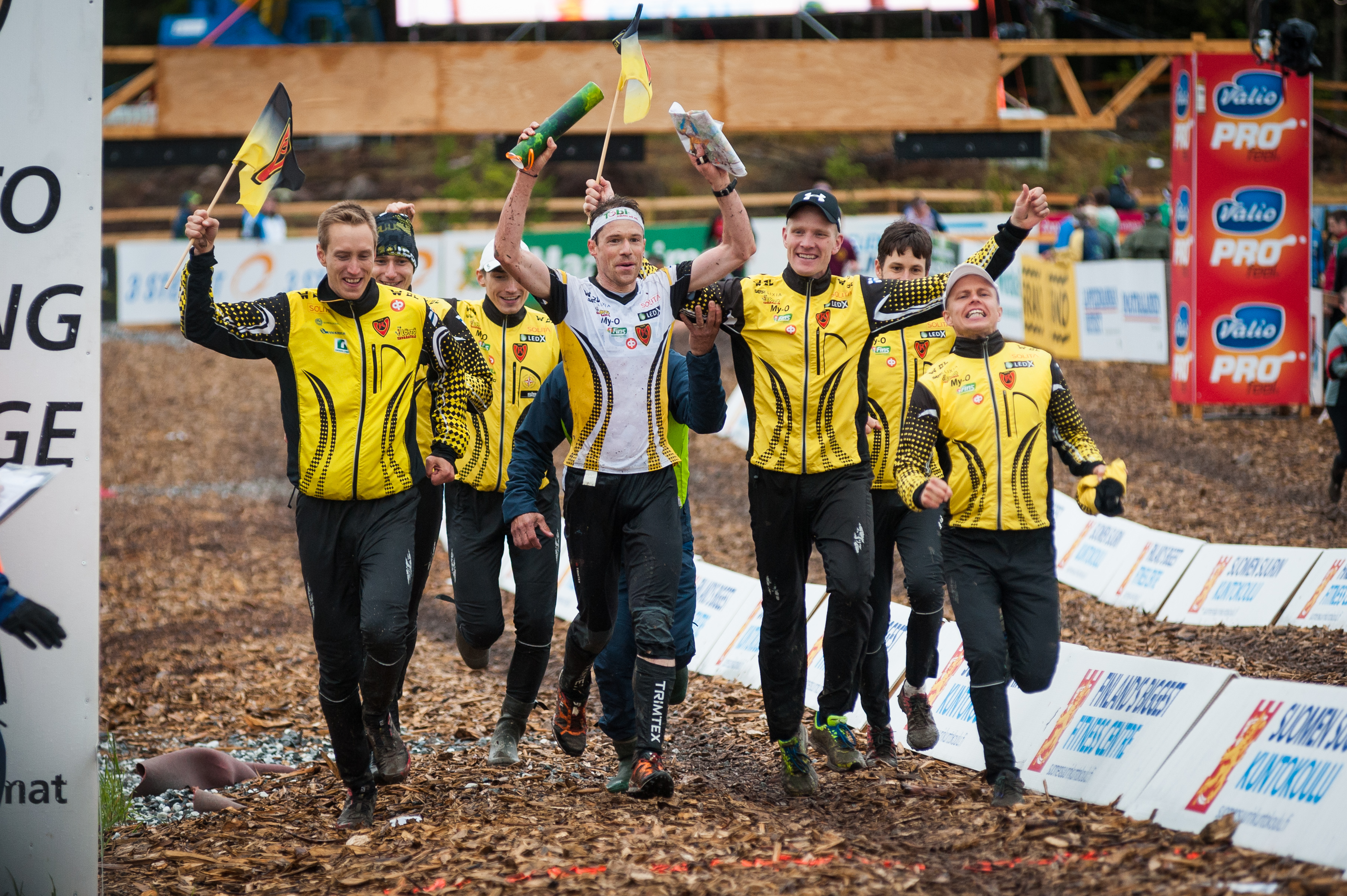 The orienteering competition Jukola relay in Lappeenranta, Finland.